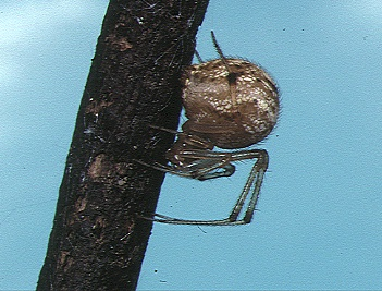 female Parasteatoda ryukyu from Okinawa.